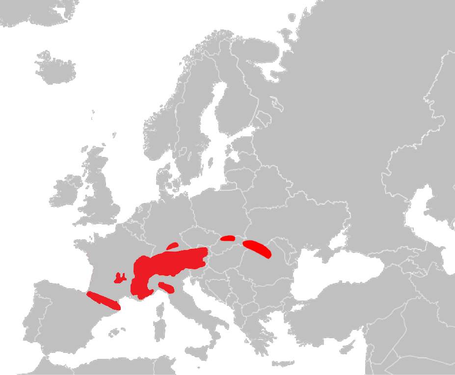 Distribution map of Marmota marmota.